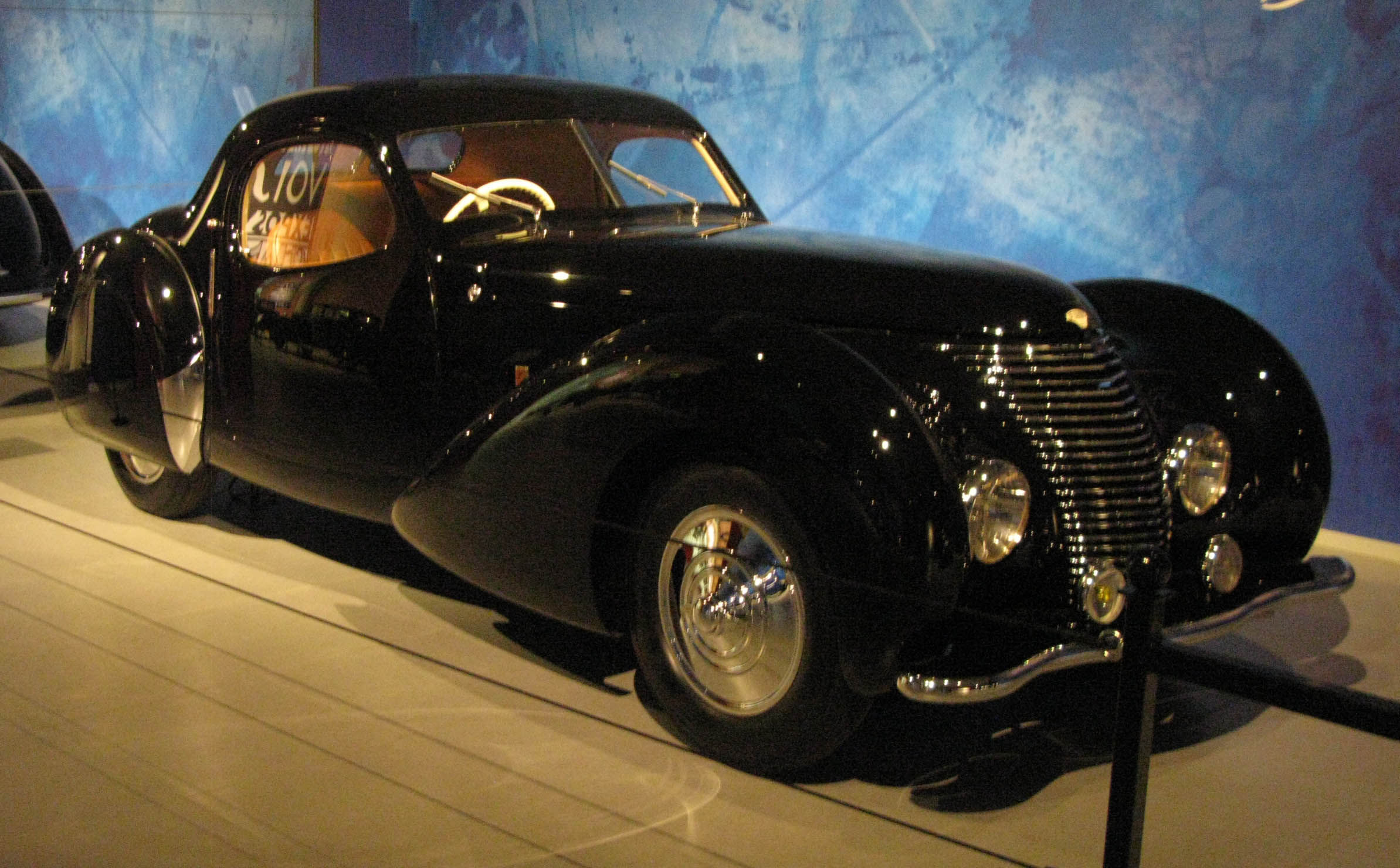 1946 Delahaye Type 135, coupe body by Pourtout.